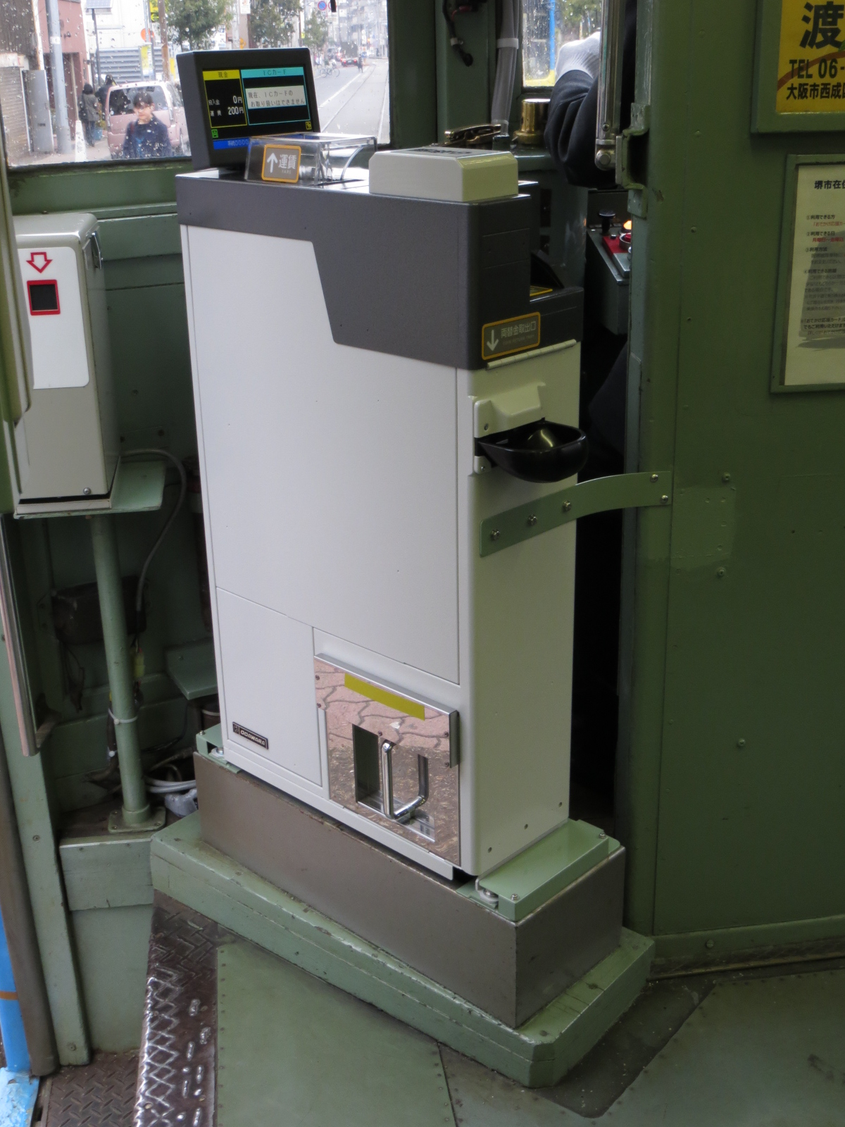 Fare Box form Hankai Tramway #170.